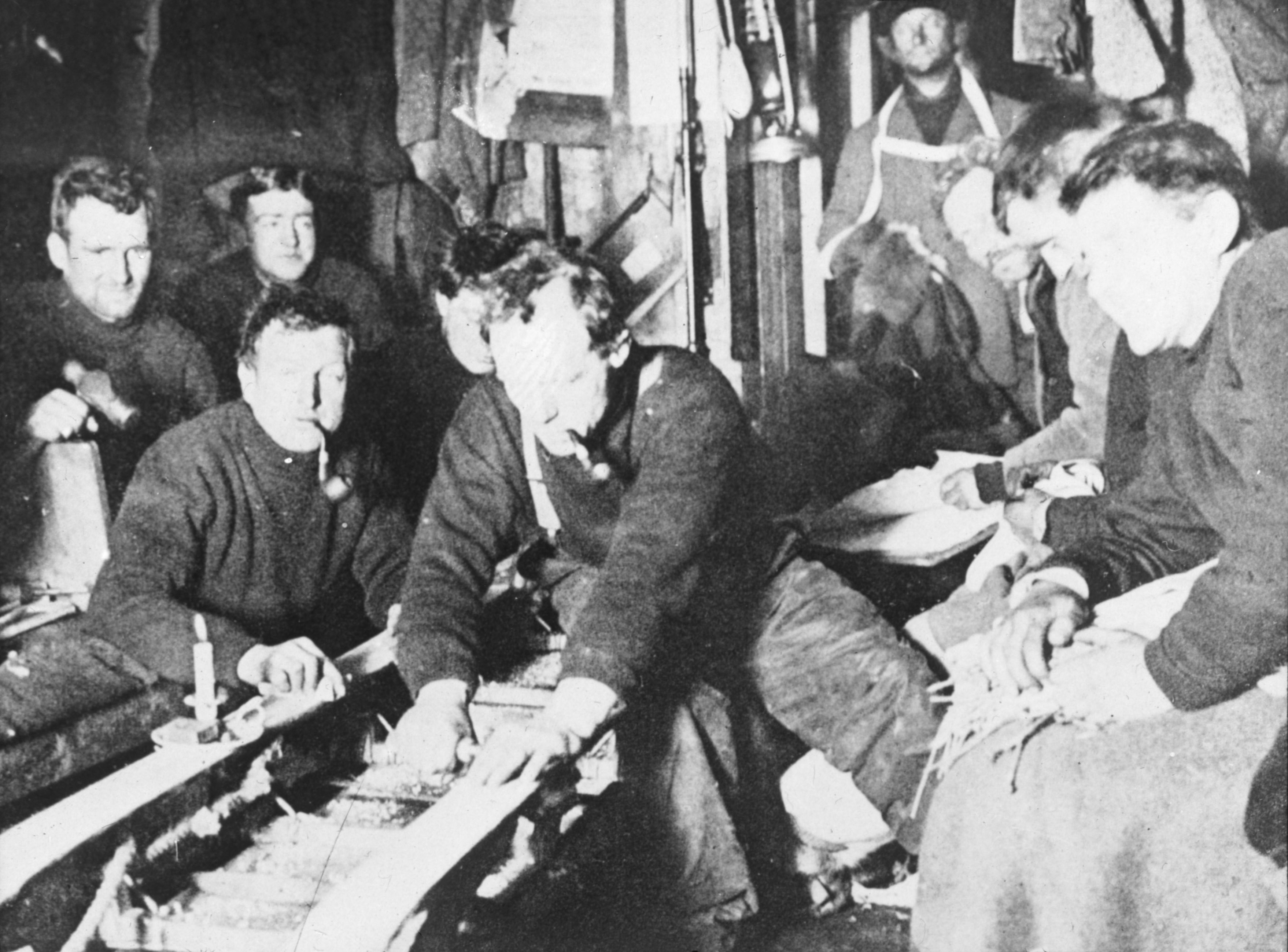 Photographs of the Nimrod Expedition (1907-09) to the Antarctic, led by Ernest Sheckleton